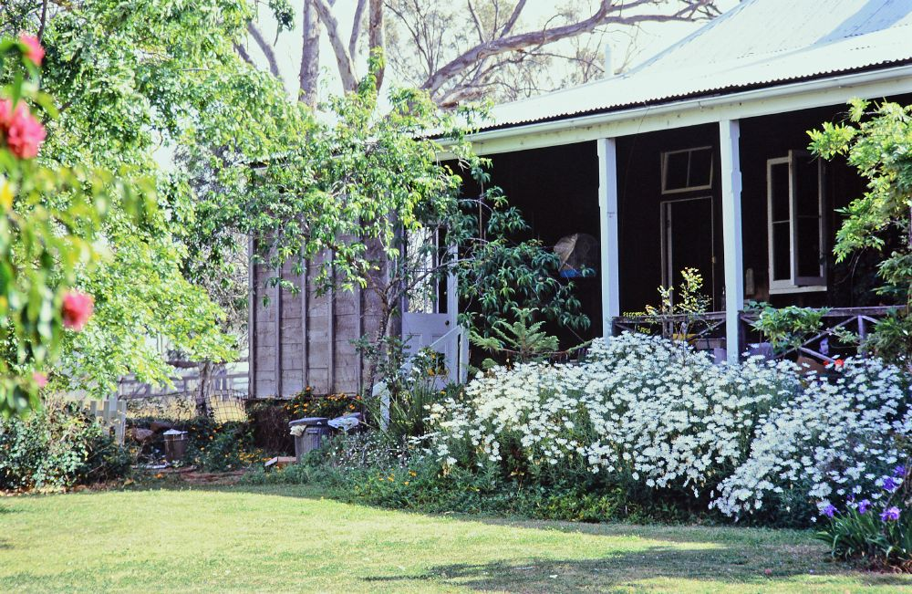 Wylarah (1992) - closeup